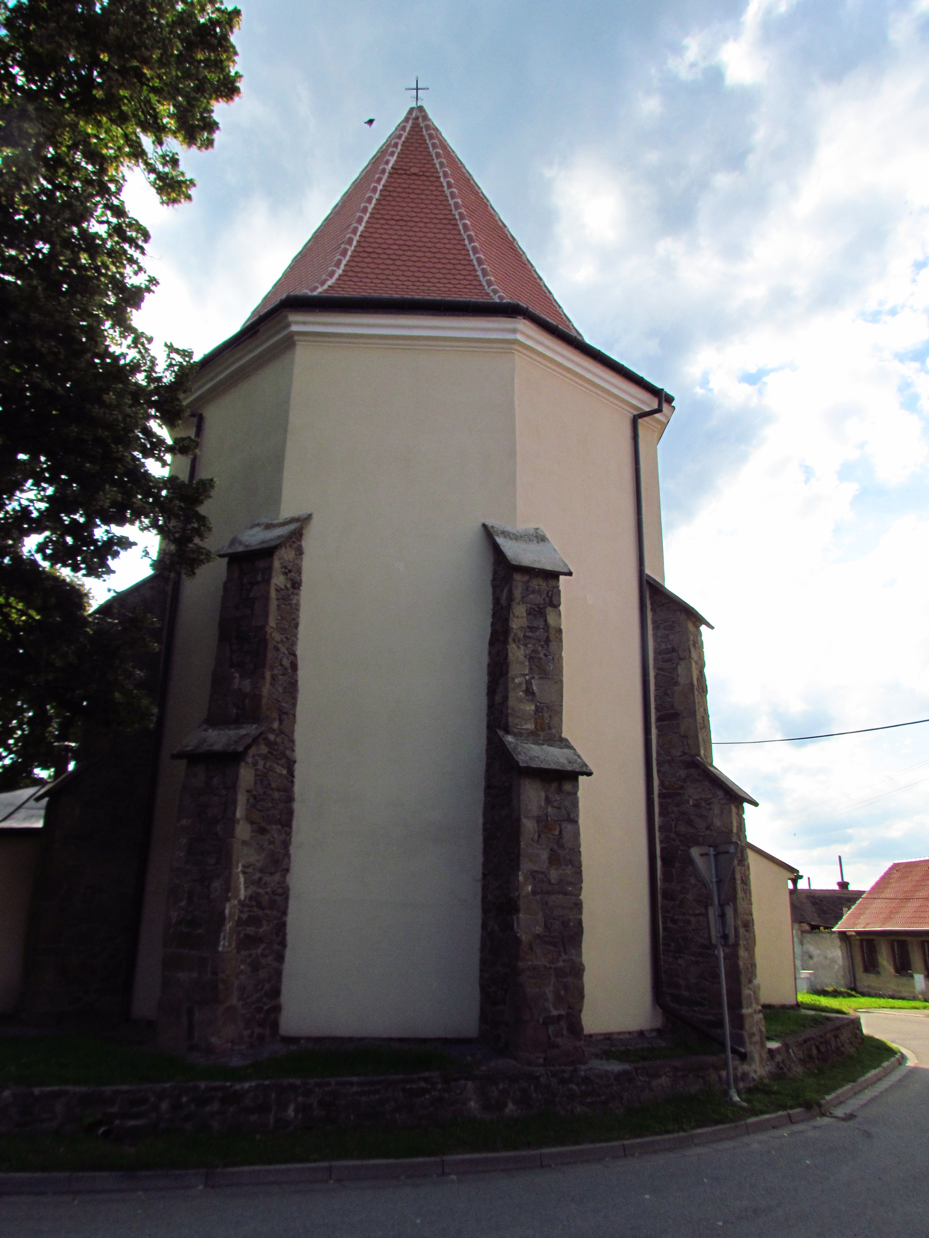 Church tower of church of the Assumption in Rouchovany, Třebíč District.